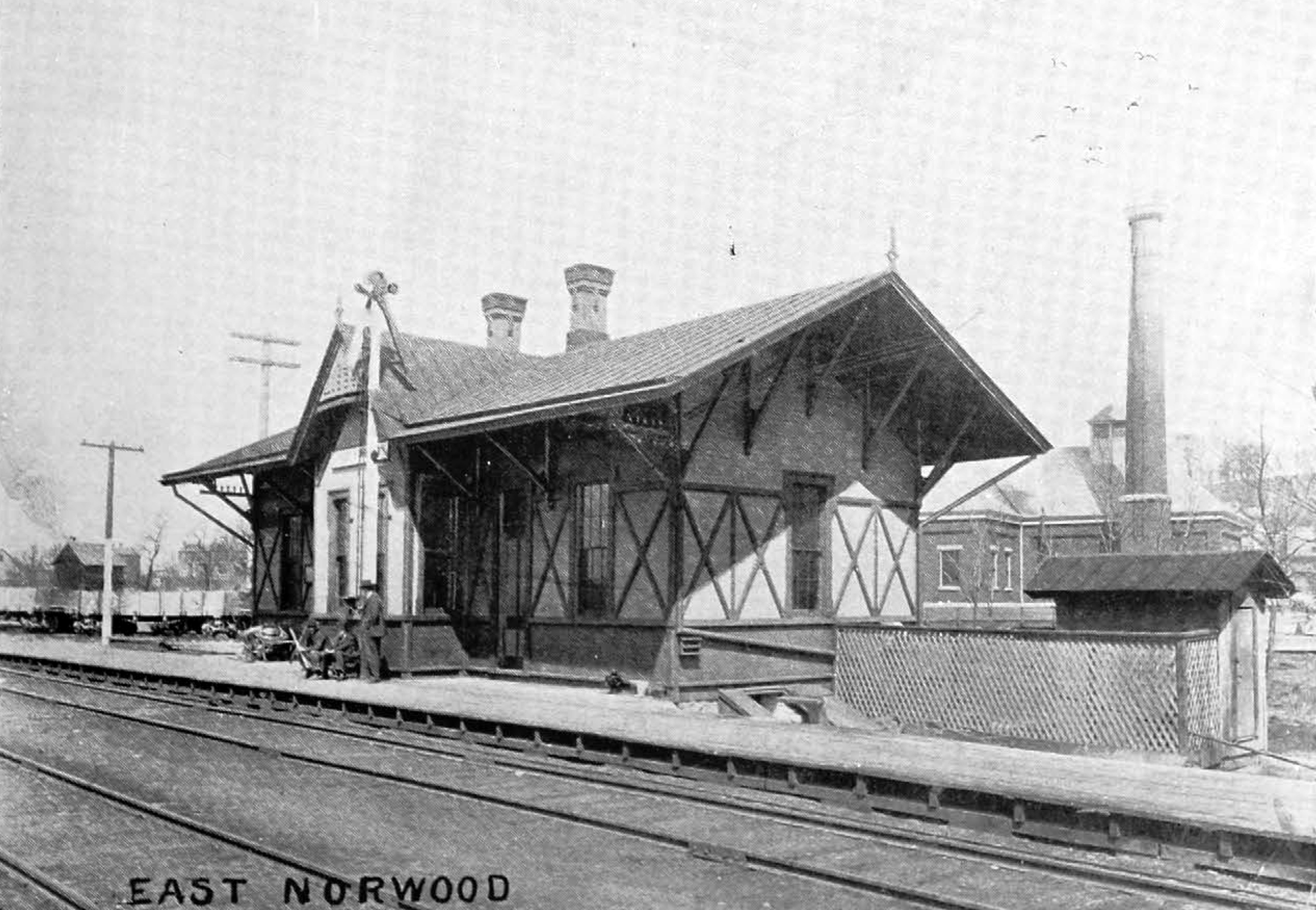 Commuters wait on a bench on the platform of the East Norwood train station in Norwood, Ohio in 1894. The passenger station provided service for the Baltimore & Ohio Southwestern Railroad as well as the Cincinnati, Lebanon and Northern Railway, which was the commuter line between Norwood and downtown Cincinnati. The station likely ended passenger service in the 1920s, but remained in operation as a railroad control tower until vandals burned it down in late-May 2000.